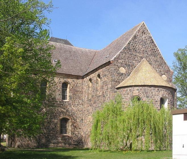 Stonechurch in Zahna, built probably before the year 1000. First german church in the landscape Fläming, which was settled by slavic tribes from ca. 7th century until this time. The town Zahna, district Wittenberg, state Saxony-Anhalt, Germany, is situated in the Nature park Fläming.